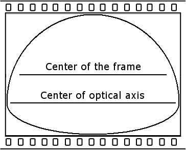 The frame layout of the IMAX Dome film